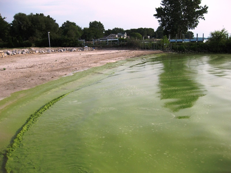 Blue green algae bloom on the shore of Catawaba Island, Ohio in Lake Erie. Summer 2009.